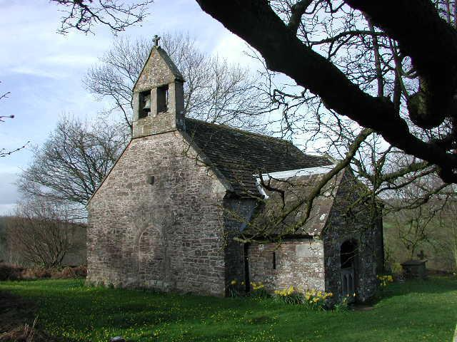 Kilgwrrwg, Church of the Holy Cross. Truly a church in the middle of nowhere - read my description at the following webpage